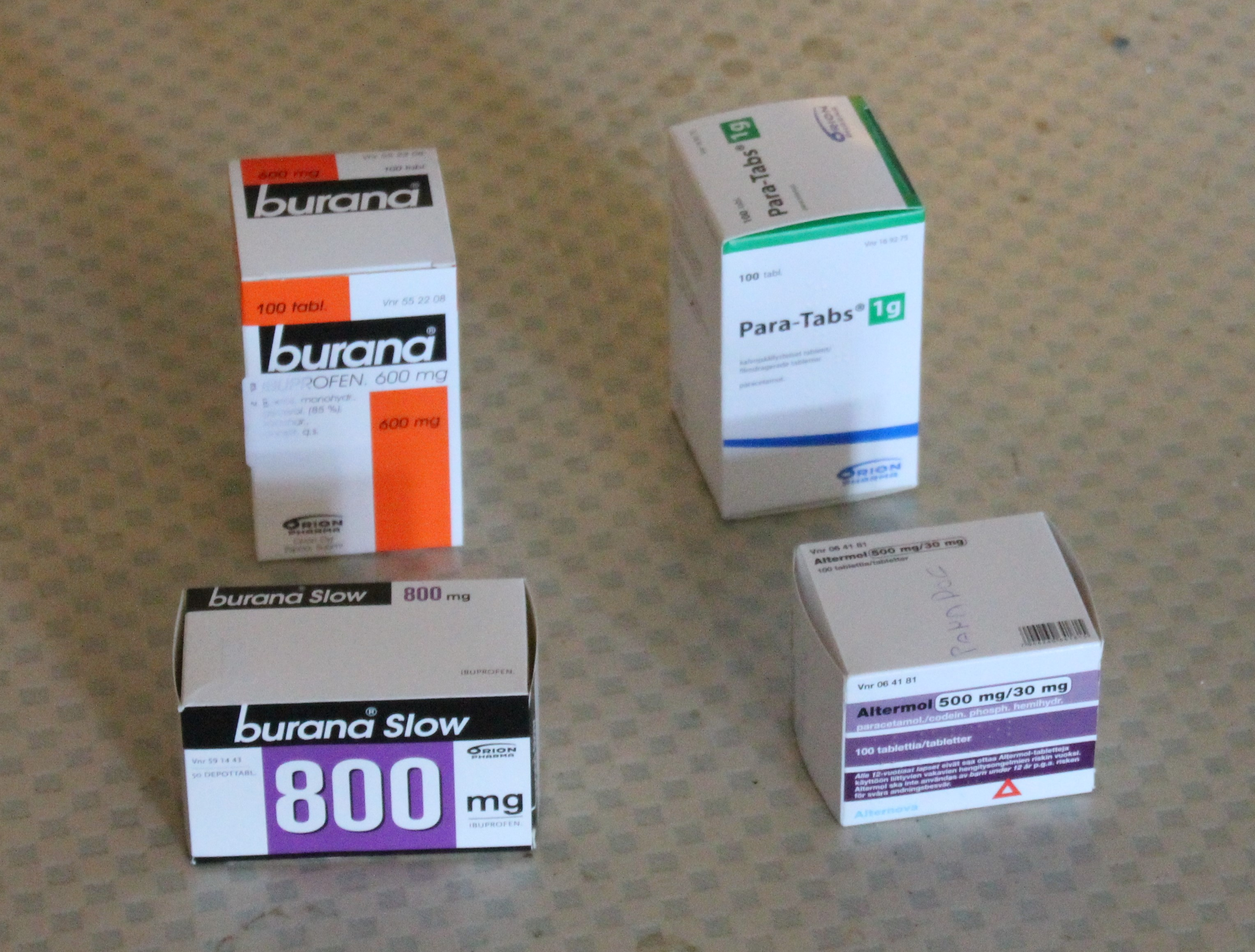 Painkillers sold in Finland